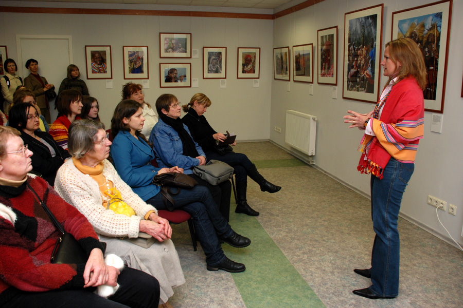 Opening the exhibition about Africa (author Eglė Aukštikalnytė Hansen) in Kaunas Cultural Centre of Various Nations.